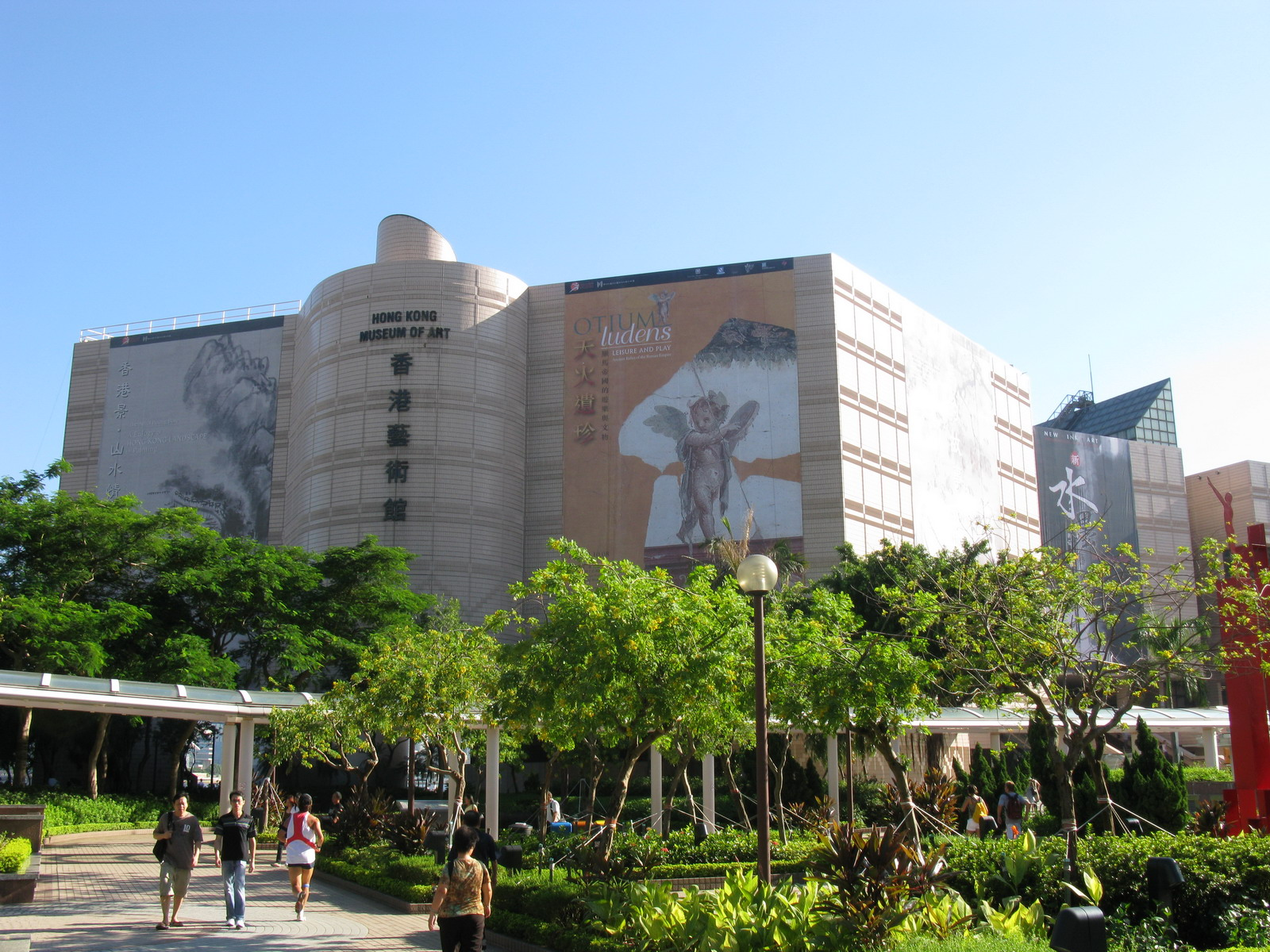 Hong Kong Museum of Art